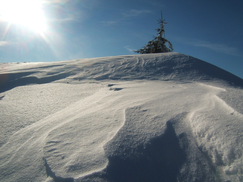 Snow drift on the Ruppberg near Zella-Mehlis, Thuringia, Germany